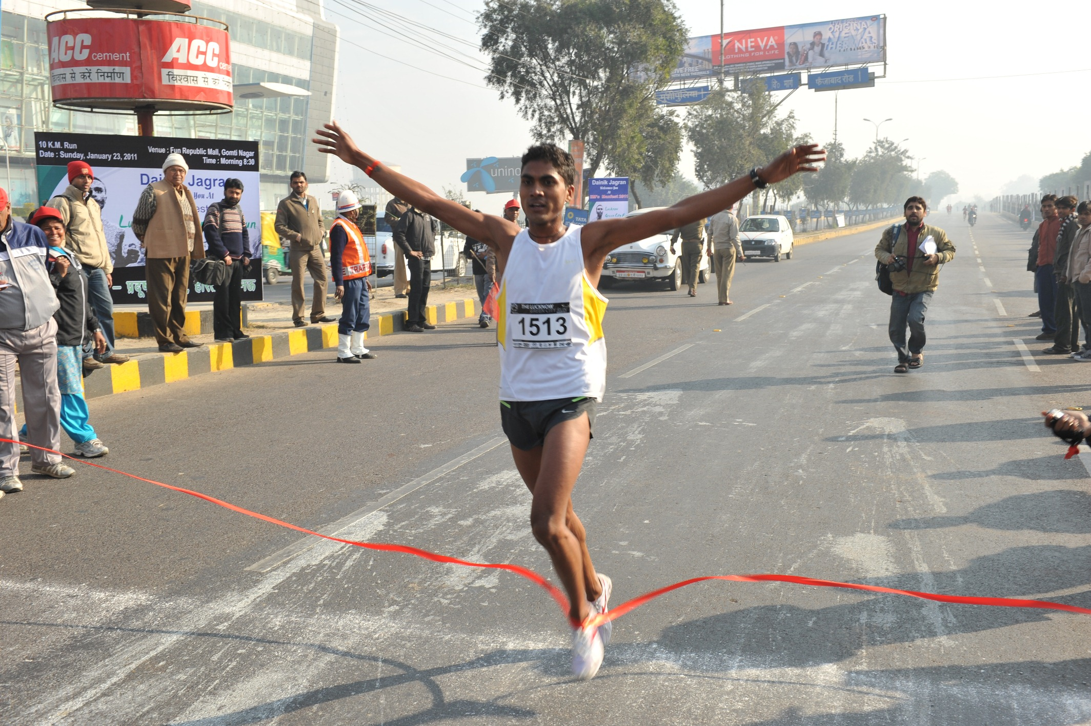 City Run Picture at Manfest 2011